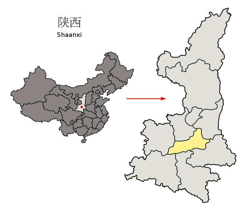 Location of Xi'an Prefecture (yellow) within Shaanxi Province of China Map drawn in december 2007 using various sources, mainly : Shaanxi Province administrative regions GIS data: 1:1M, County level, 1990 Shaanxi Counties map from